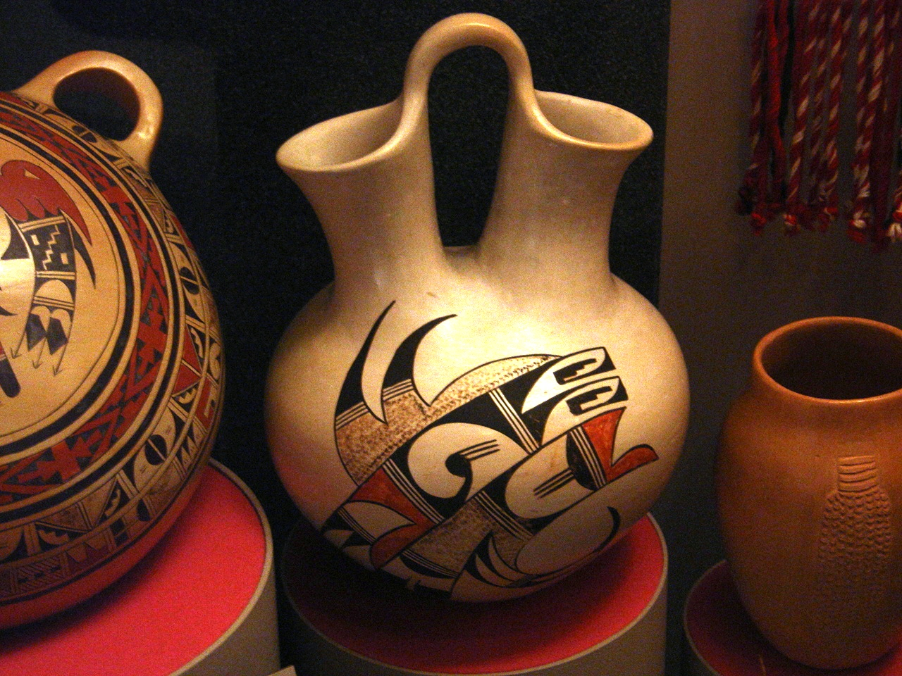 Native American pottery vessels. University of Arizona, Arizona State Museum